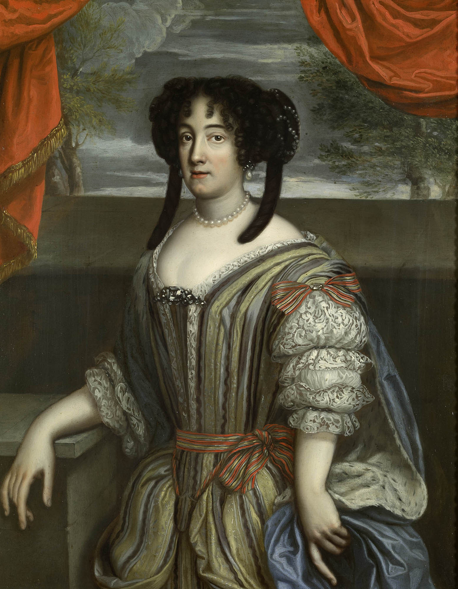 Éléonore Desmier d'Olbreuse (1639-1722), Duchess of Brunswick-Lüneburg, consort of George William, Duke of Brunswick-Lüneburg, daughter of Alexandre Desmier d'Olbreuse